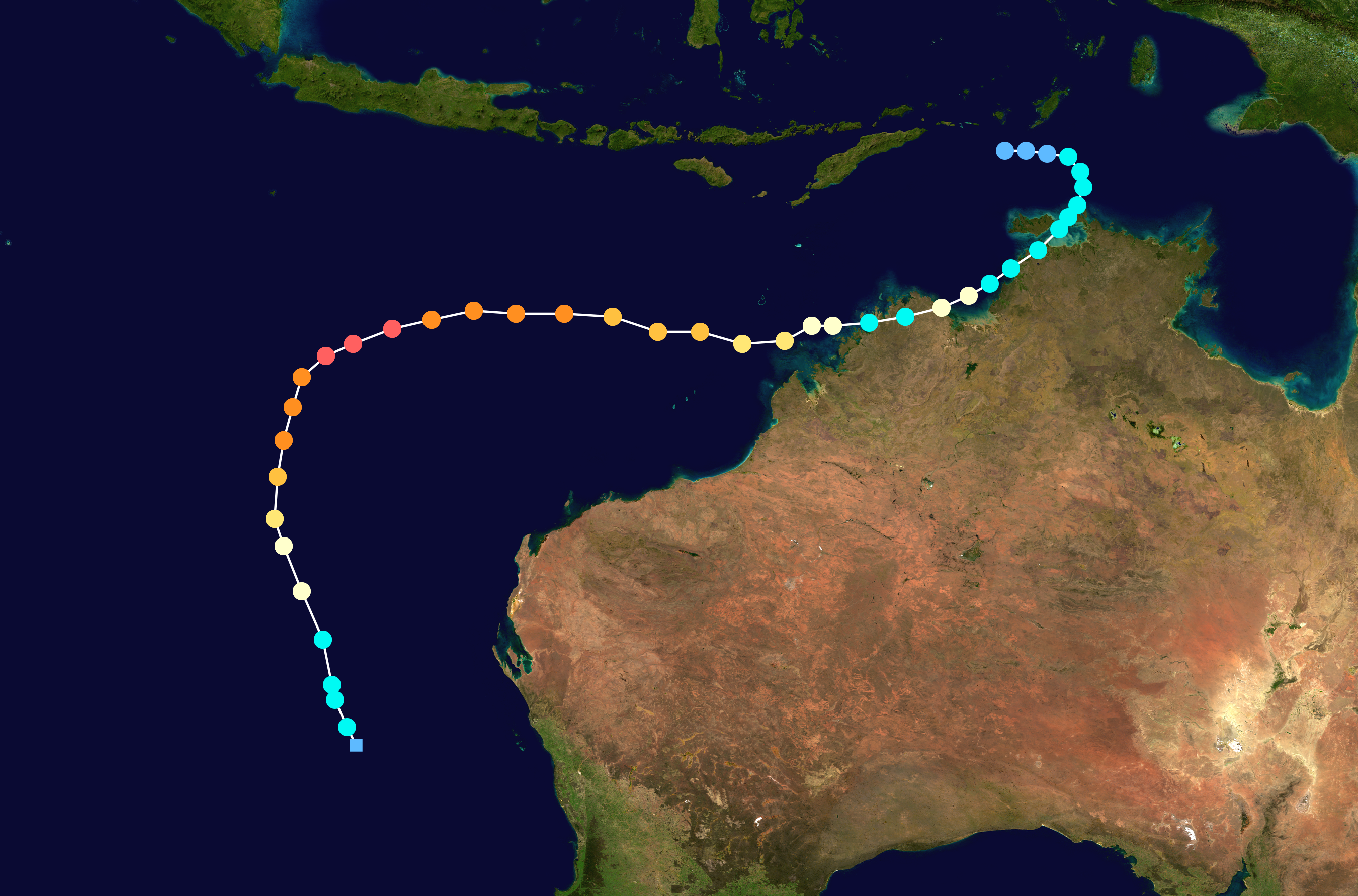 Track map of Severe Tropical Cyclone Marcus of the 2017-18 Australian region cyclone season. The points show the location of the storm at 6-hour intervals. The colour represents the storm's maximum sustained wind speeds as classified in the Saffir–Simpson scale (see below), and the shape of the data points represent the nature of the storm, according to the legend below. Saffir–Simpson scale Tropical depression≤38 mph≤62 km/h Category 3111–129 mph178–208 km/h Tropical storm39–73 mph63–118 km/h Category 4130–156 mph209–251 km/h Category 174–95 mph119–153 km/h Category 5≥157 mph≥252 km/h Category 296–110 mph154–177 km/h Unknown Storm type Tropical cyclone Subtropical cyclone Extratropical cyclone / Remnant low / Tropical disturbance / Monsoon depression